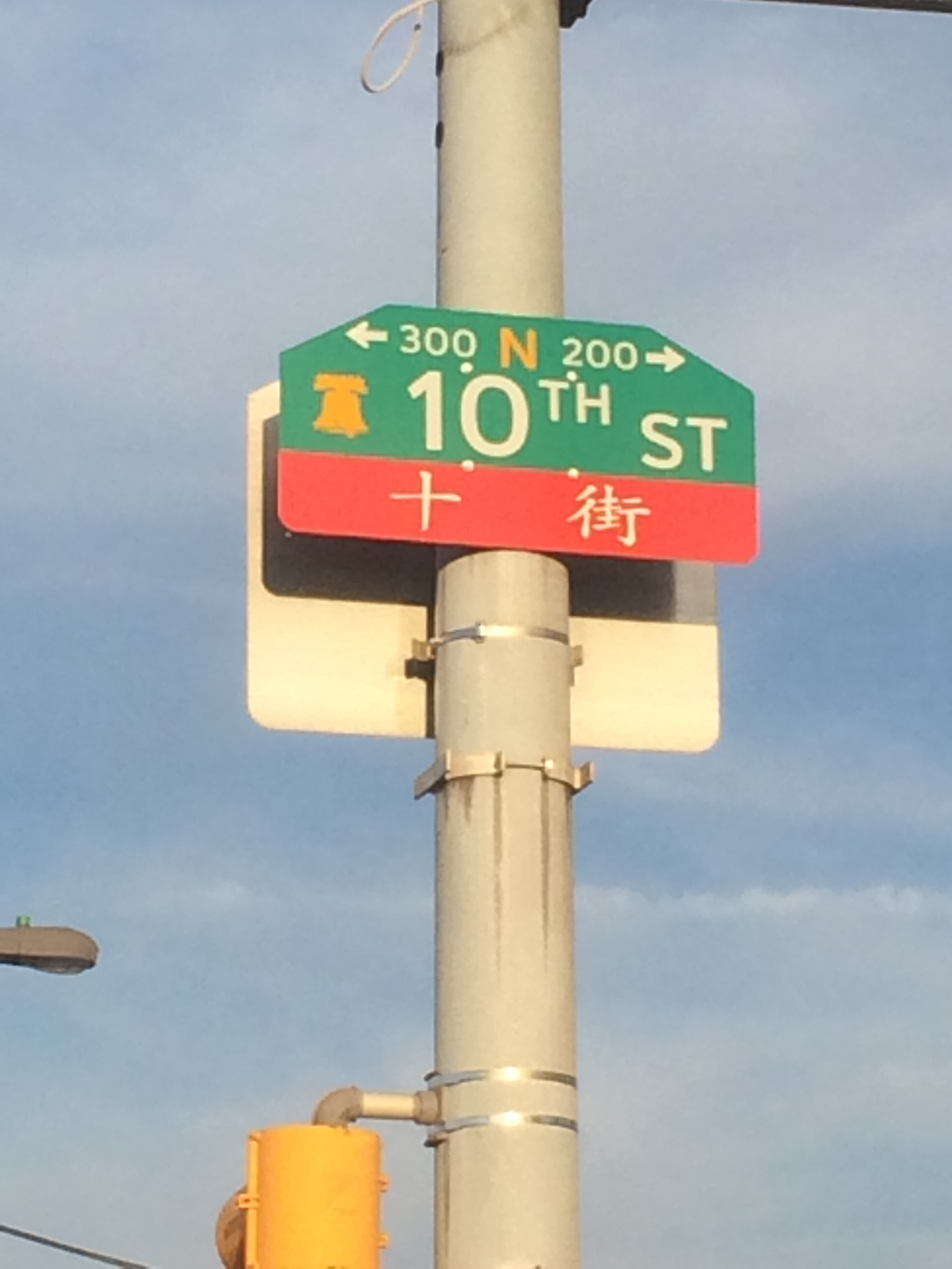 My own work from my iPhone 5s.